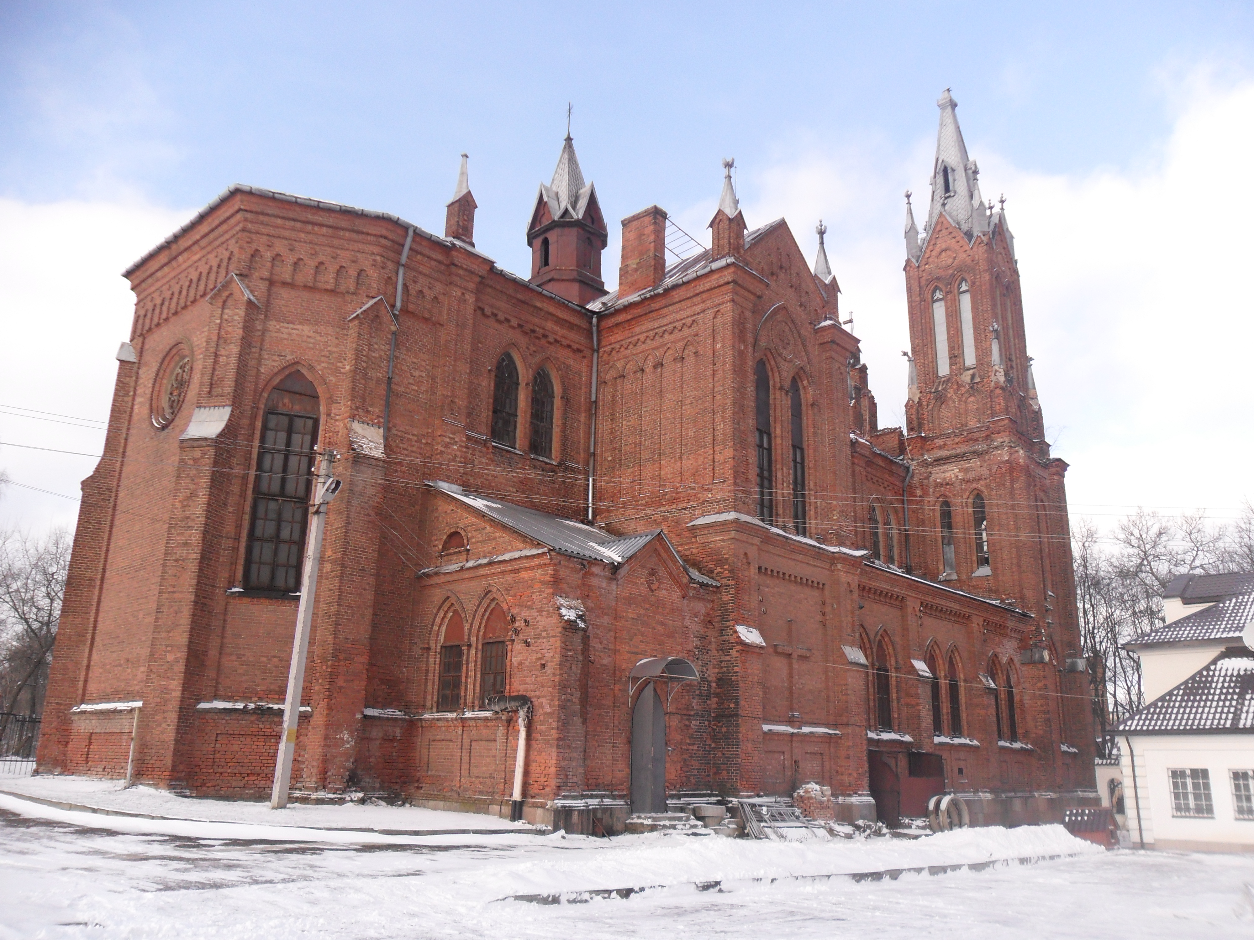 Smolensk Catholic church. Back view.